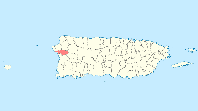 Municipal locator of Puerto Rico